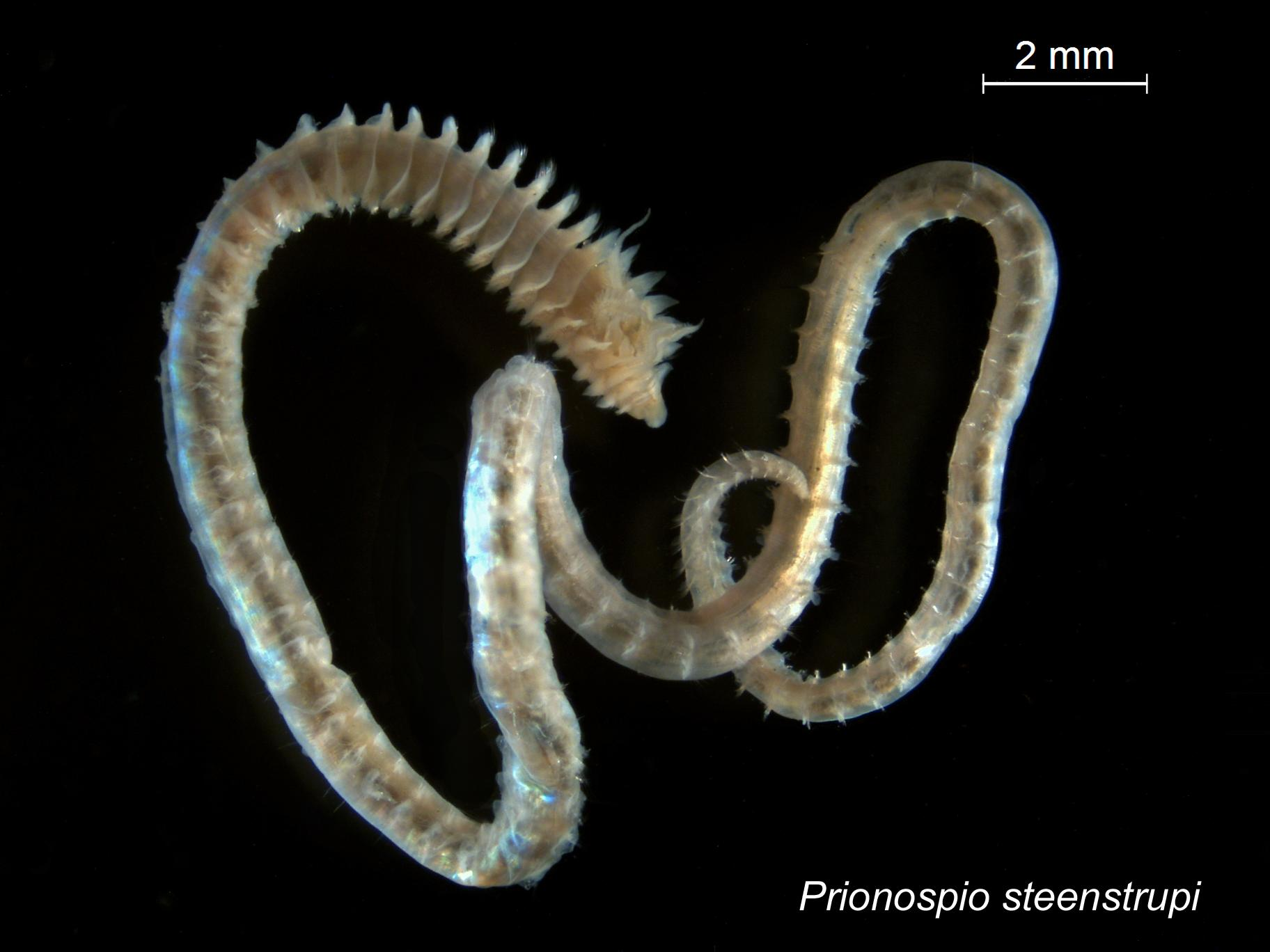 Collected from Puget Sound sediments and photographed by the Washington State Department of Ecology’s Marine Sediment Monitoring Team. For more information about this team’s work visit